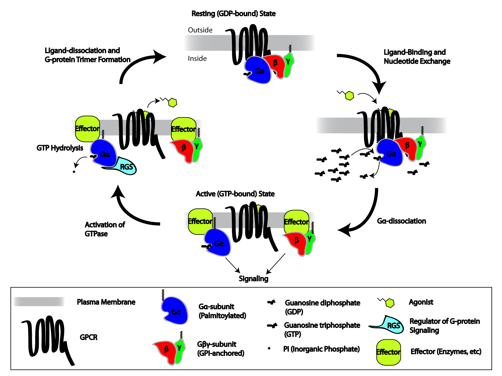 Cartoon depicting the GPCR-G-protein activation/deactivation cycle. In the resting state the receptor may be found associated with a heterotrimeric G-protein with GDP bound to its alpha subunit. Agonist binding to the GPCR induces a cascade of conformational changes first in the receptor and then in the bound G-alpha subunit of the G-protein. This results in release of GDP which is soon replaced by GTP. The cell maintains a 10:1 ratio of cytosolic GTP:GDP so exchange for GTP is ensured. GTP-bound G-alpha takes yet another conformation that has low affinity for the GPCR as well as the Beta-Gamma complex, so all three dissociate from one another. GTP-G-alpha and the G-beta/gamma complex then go on to allosterically modulate the activies of various downstream effector proteins, but diffusion is usually limited to the membrane surface due to the presence of palmitoyl and a GPI-anchor, respectively. The GTP-binding site of G-alpha is also capable of hydrolyzing GTP to GDP, albeit at a relatively slow rate. This rate can be increased by binding to various GTPase activating Proteins (GAPs) such as those of the RGS family. Many effector molecules modulated by G-alpha also have GAP activity. Upon GTP hydrolysis the G-alpha subunit is rendered inactive and once again may bind G-beta/gamma and form a heterotrimeric G-protein, which will often be found associated with an unliganded GPCR. Abbreviations, etc: GPCR= G-protein Coupled receptor G-alpha= G-alpha subunit of a heterotrimeric G-protein G-beta/gamma= Complex of G-beta-gamma subunits of a heterotrimeric G-protein RGS=Regulator of G-protein Signaling GTPase= GTP to GDP hydrolyzing domain of Galpha Small molecules: GTP= Guanosine triphosphate GDP=Guanosine diphosphate Pi= Inorganic Phosphate (ie PO4)